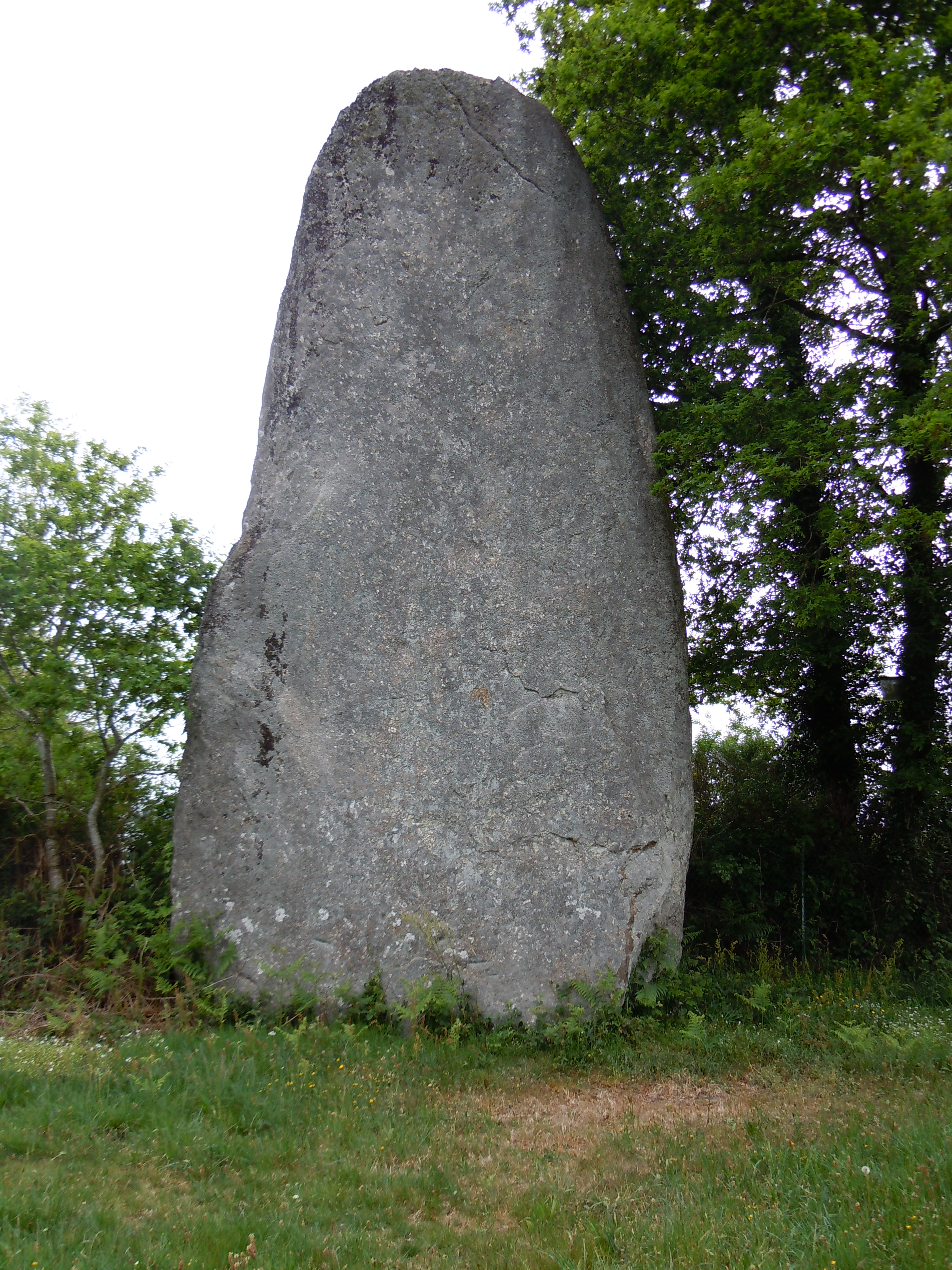 menhir in Glomel Brittany France